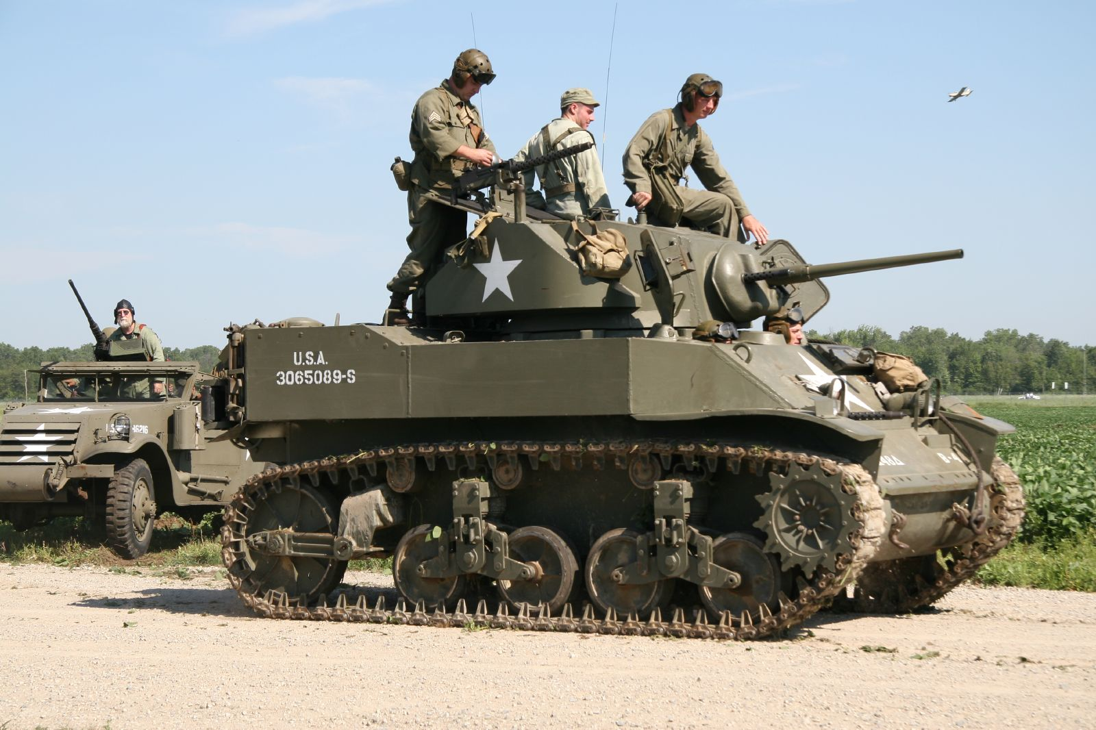 M5 Stuart Light Tank, Thunder Over Michigan 2006.